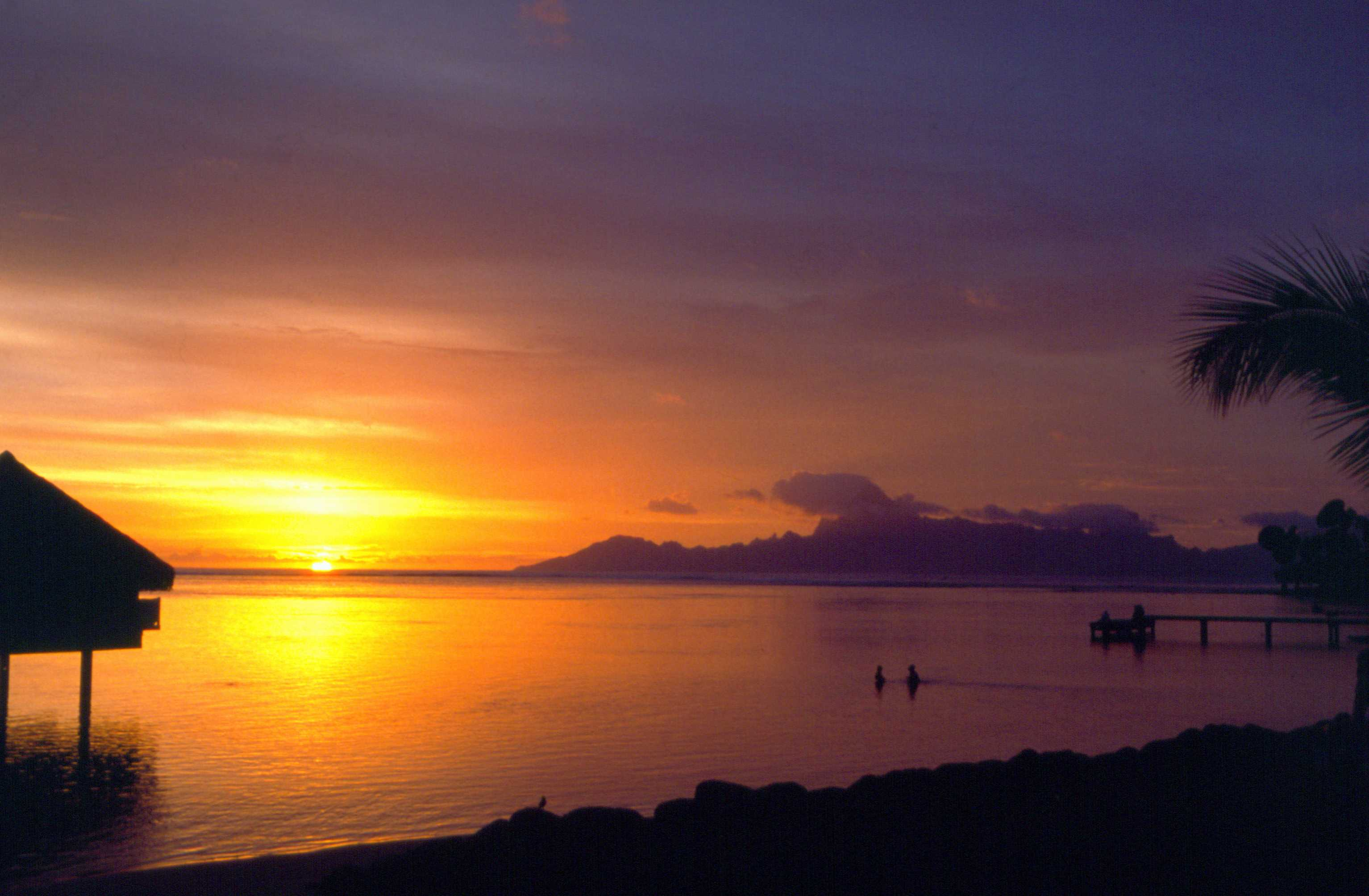 Silhouette of Moorea as seen from the western coast of Tahiti, French-Polynesia